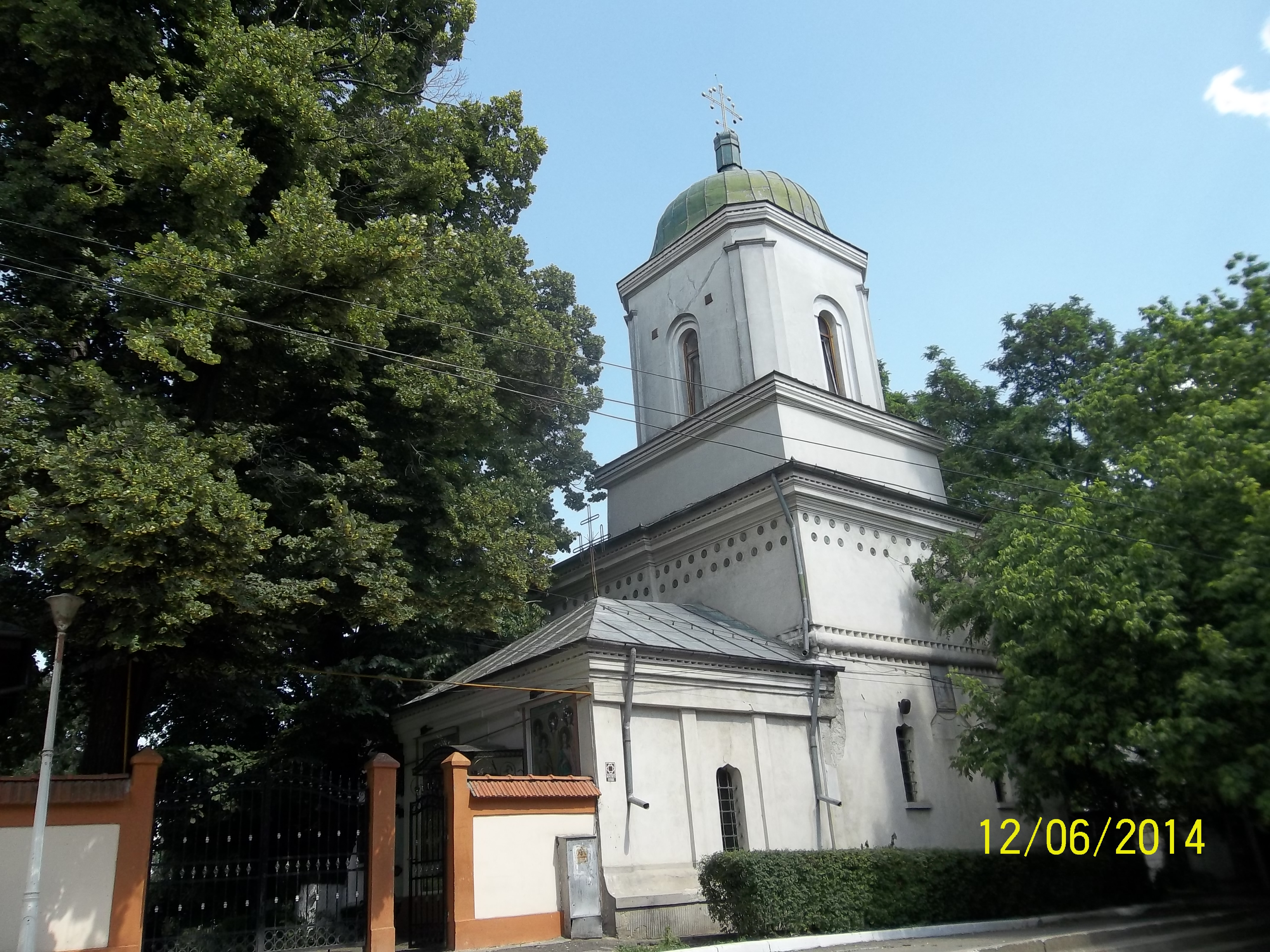 "Metoc - Archangels Saints", Monastery, Church, Str. Egalităţii, nr. 6 Galati, Galatz, Romania